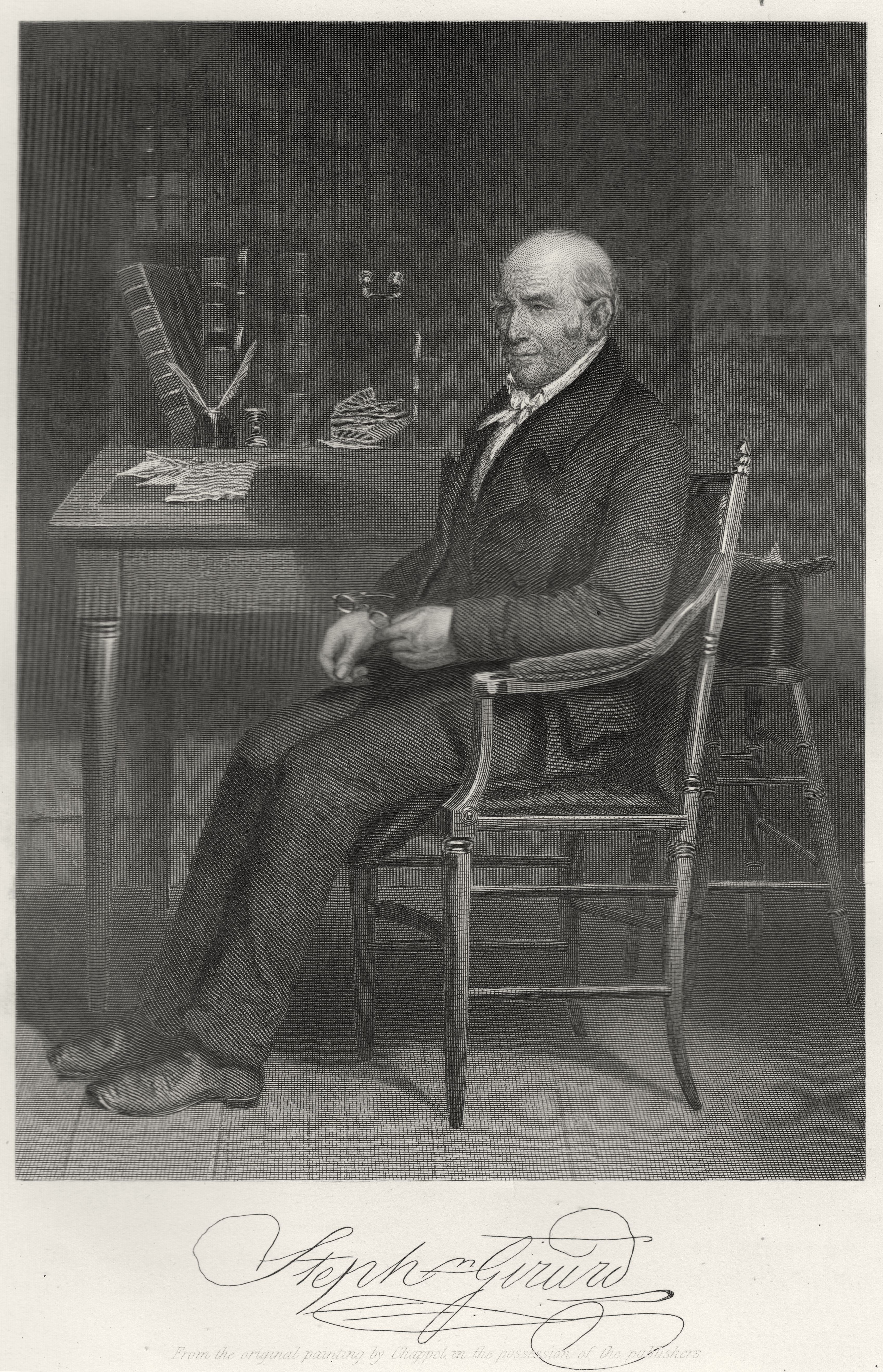 Portrait of Stephen Girard (Steel engraving with signature)